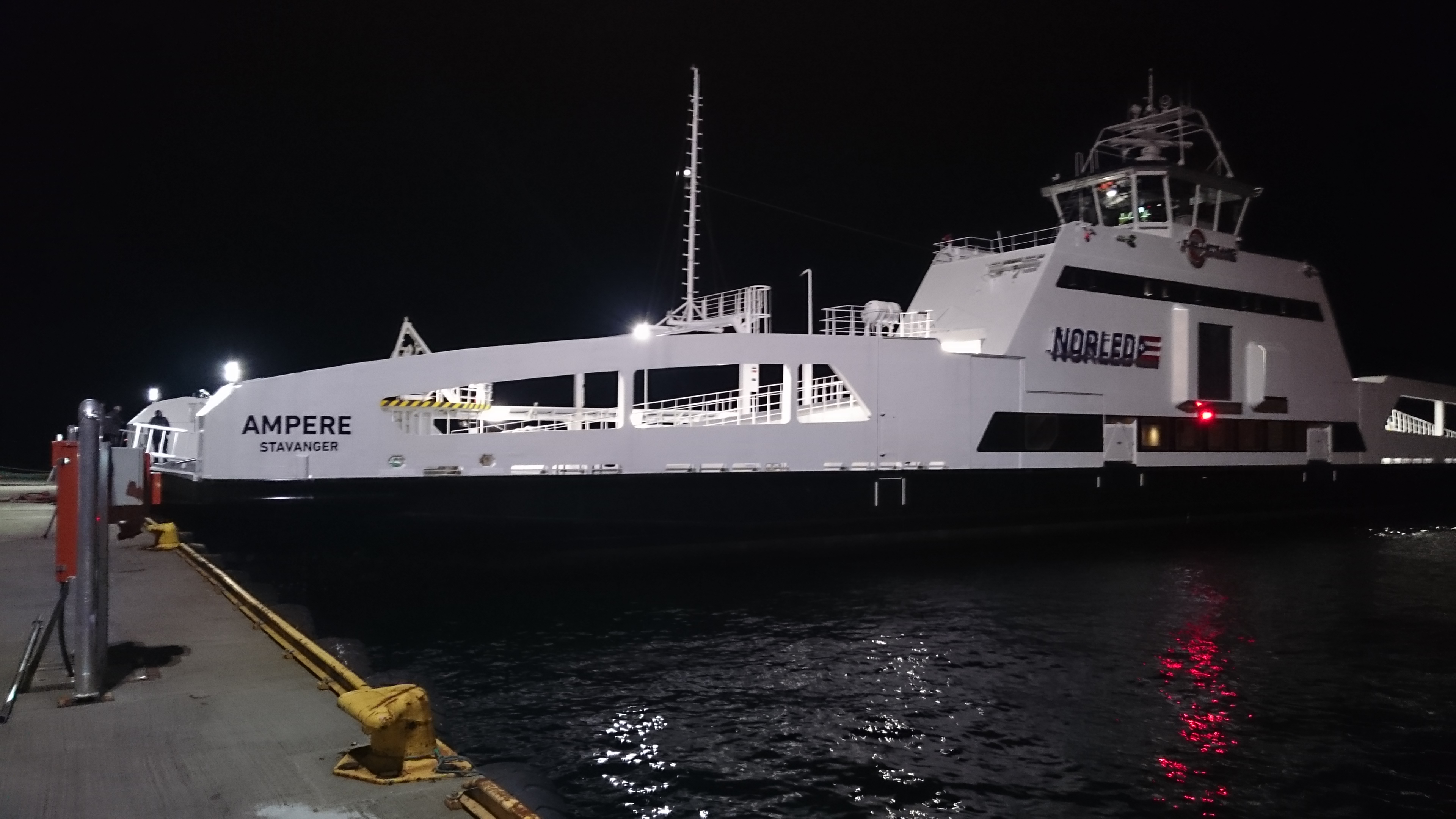 M/F Ampere, Fjellstrand Shipyard, 2014. All-electric battery ferry, ship, vessel, boat